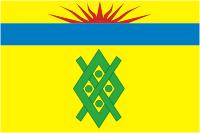 Eremizovo-Borisovskoe (Krasnodar krai), flag